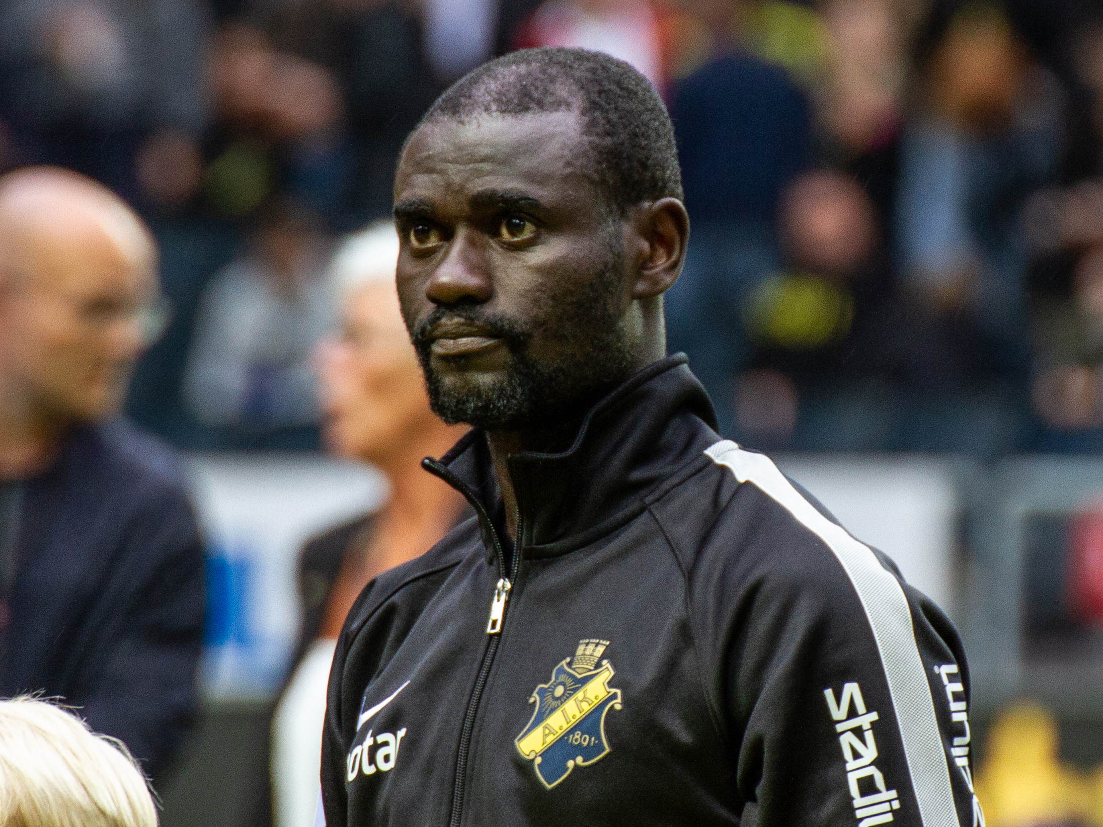 Enoch Kofi Adu in August 2018